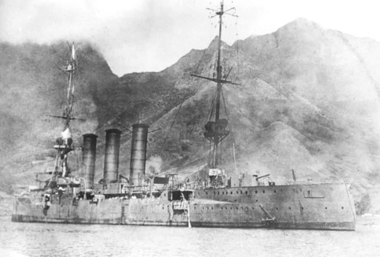 The German light cruiser SMS Dresden at Juan Fernandez Island, 14 March 1915. The white flag of surrender is flying from the foremast.